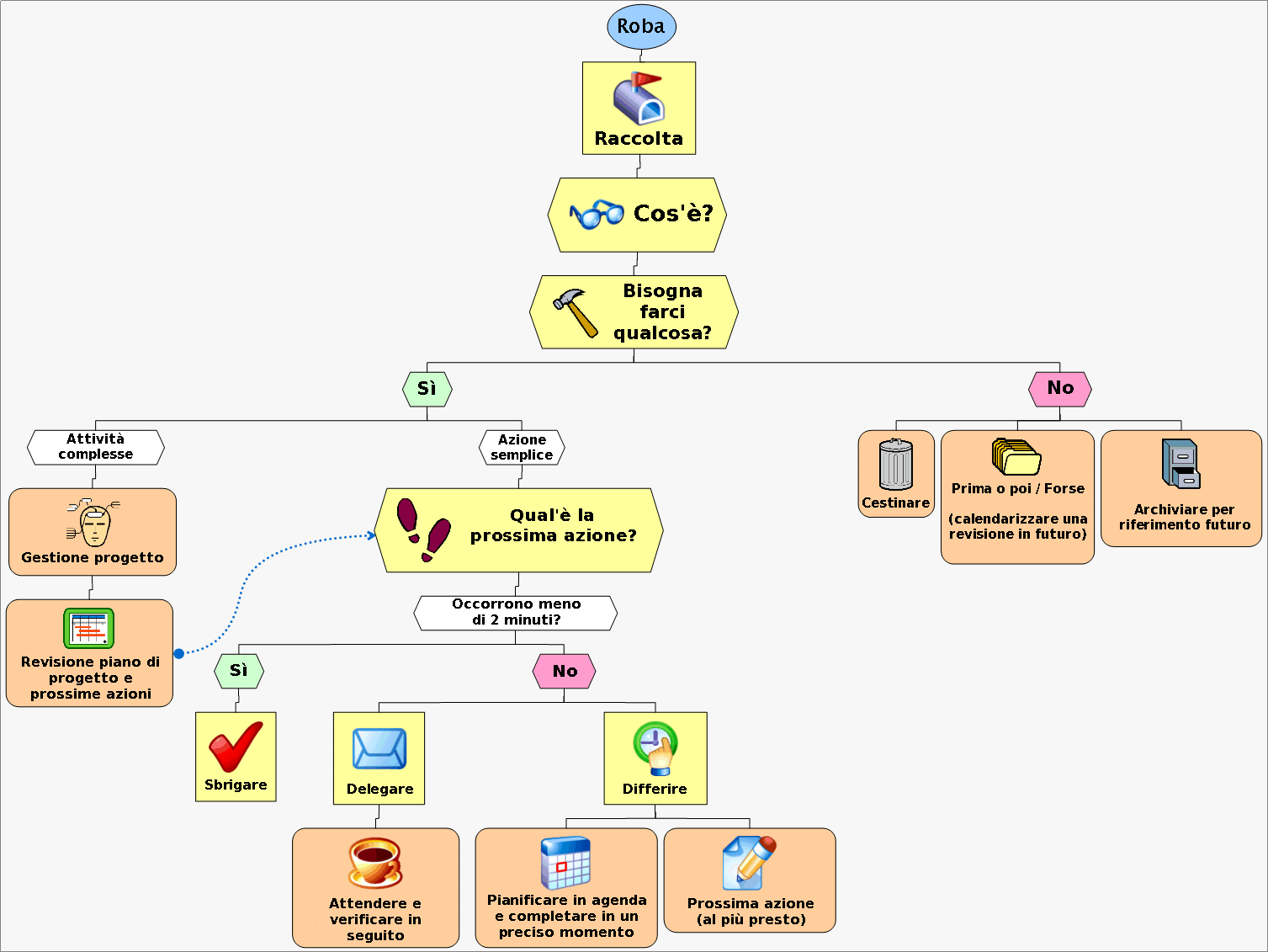 David Allens GTD flowchart, ITALIAN captions